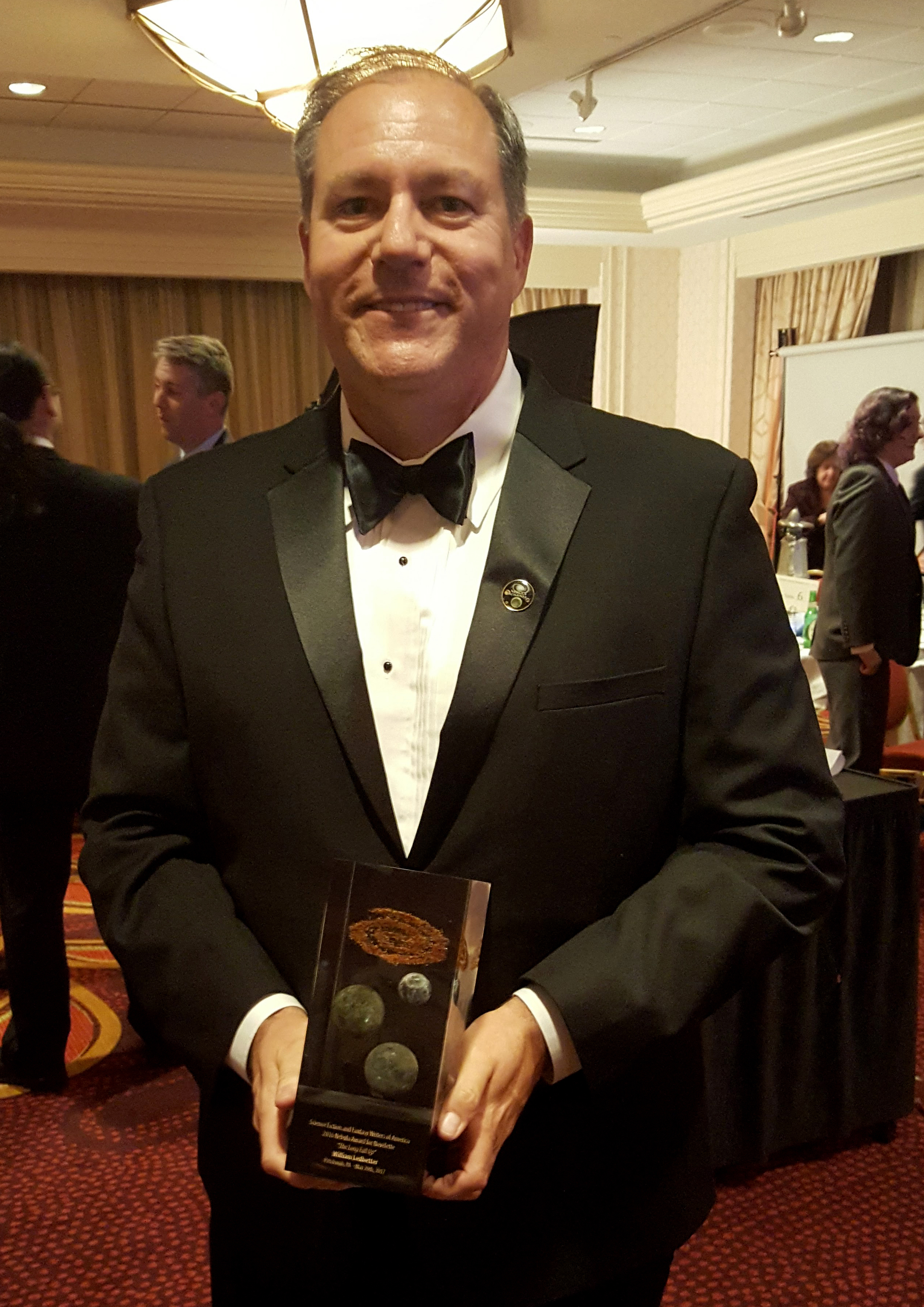 Author William Ledbetter holding the Nebula Award for Best Novelette he won for his story "The Long Fall Up" at the 2017 SFWA Nebula Awards conference.